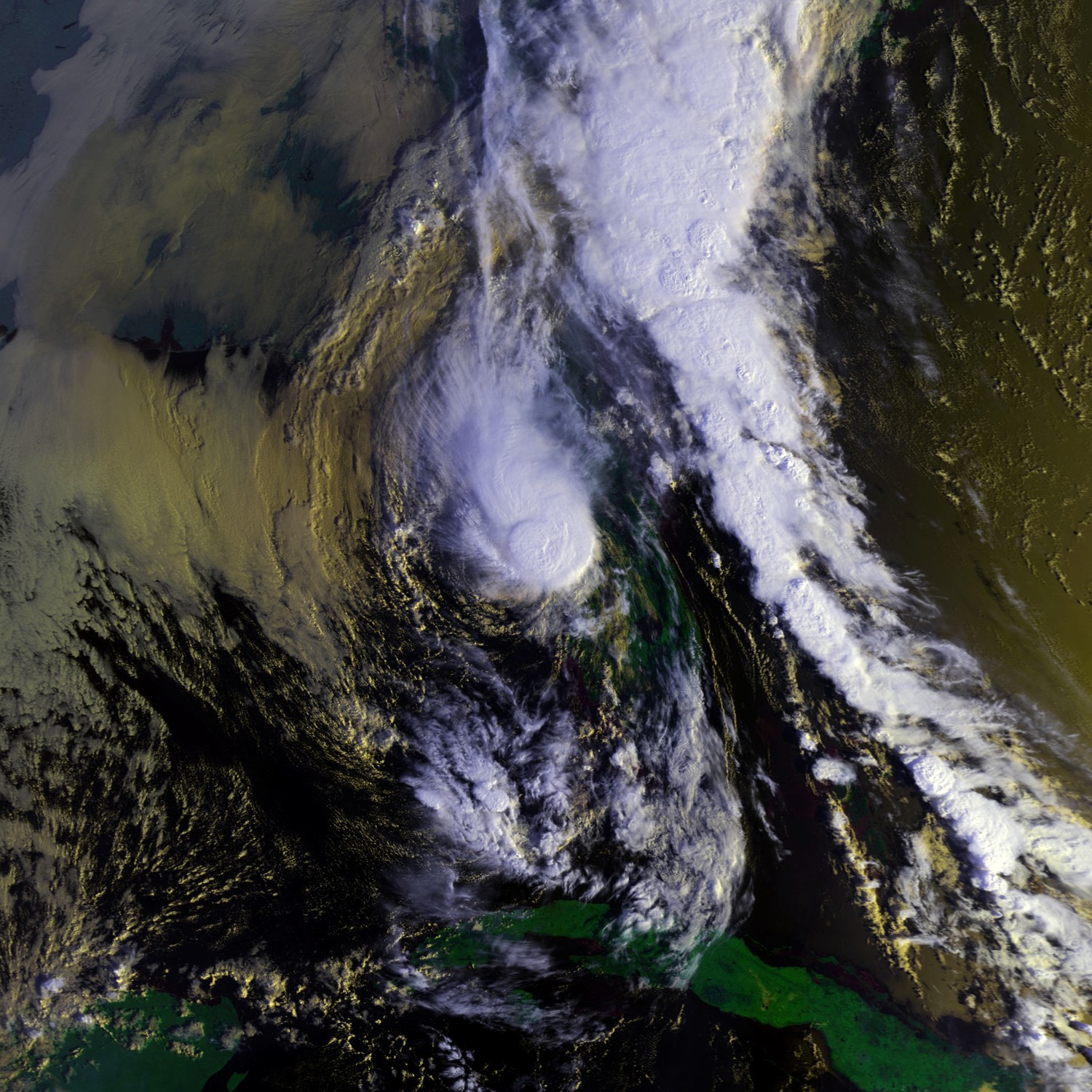 This image shows Tropical Storm Marco near peak intensity on October 11 at 1301 UTC. This image was produced from data from NOAA-10, provided by NOAA.